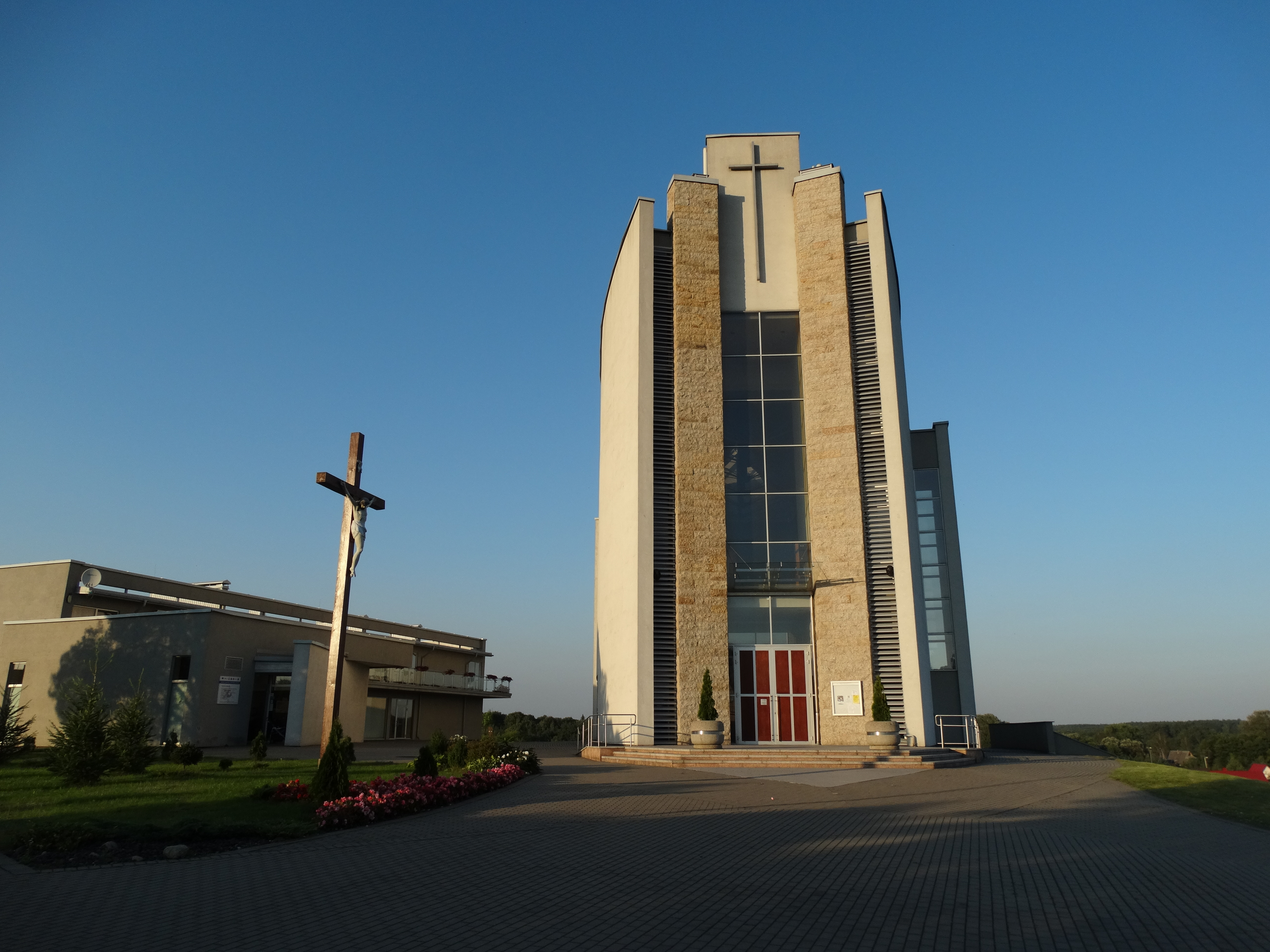 Church of Holy Virgin Mary, Queen of Families in Pabradė, Švenčionys District, Lithuania